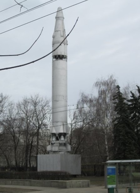 R-9 ICBM